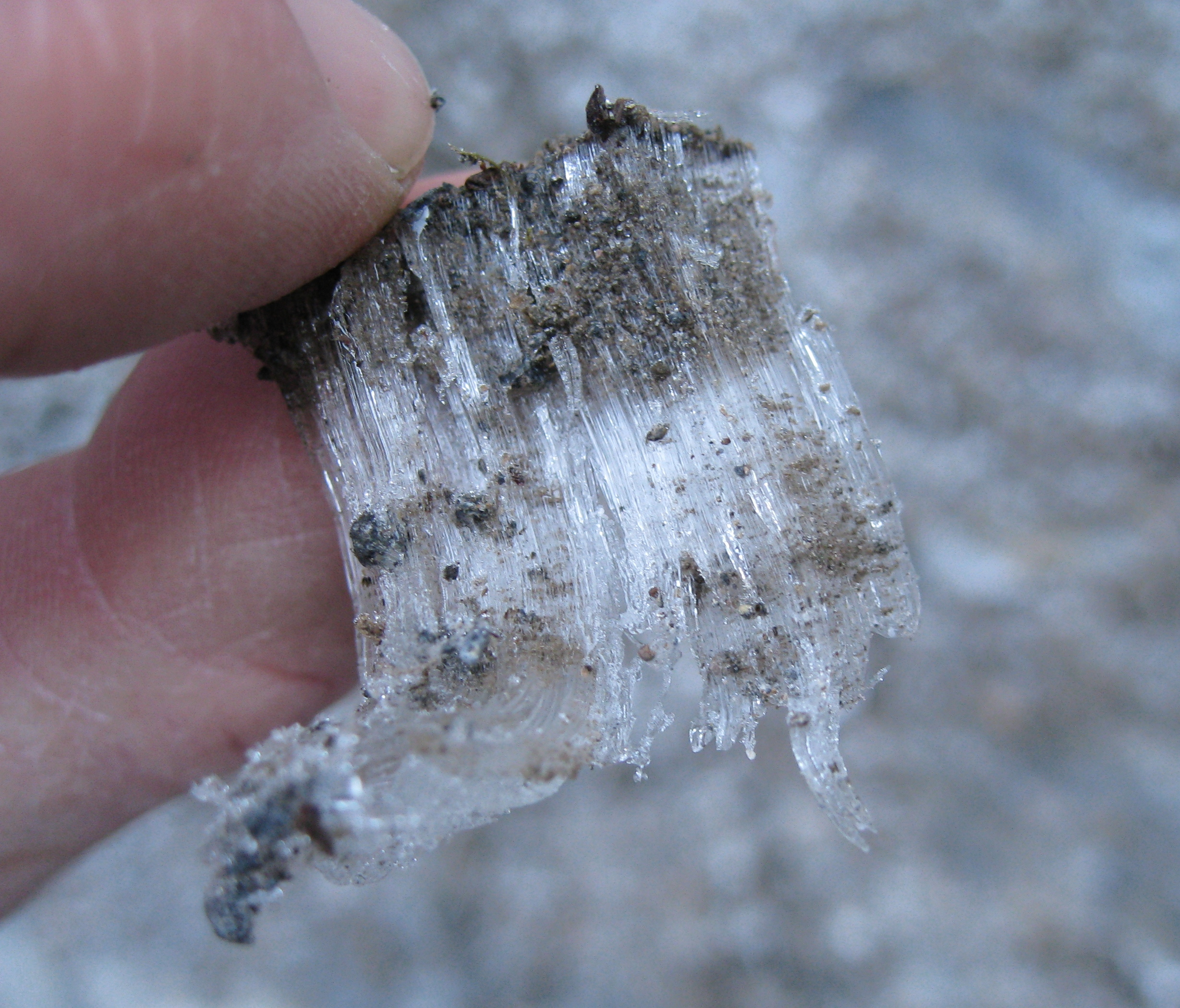 Needle ice in Mount Rainier National Park, US. ("Pipkrake – small, thin needlelike crystal of ice formed just below ground level and growing perpendicular to the soil surface.")